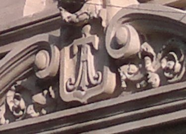 Monogram of Ashurbekovs. Building on 148 Vidadi Street in Baku. Azerbaijani historian Sara Ashurbeyli lived here.